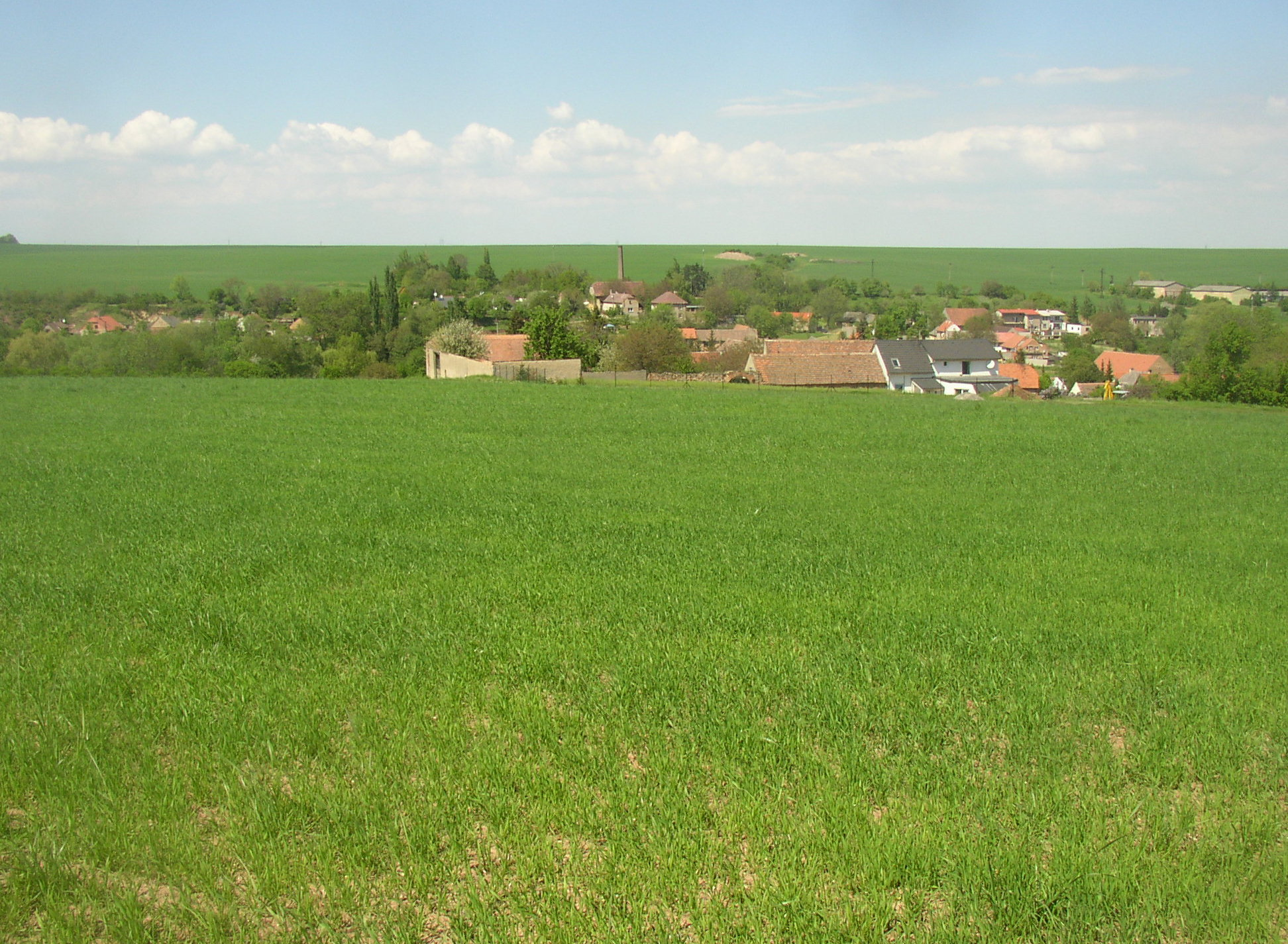 Kutrovice, Kladno District, Czech Republic. A general view of the village from the south, from a bus stop on main road I/7.